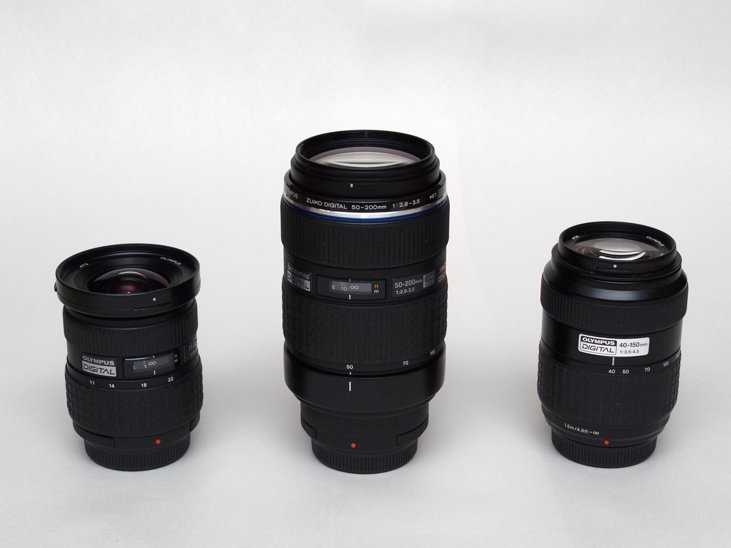 A trio of Olympus lenses for size comparison.